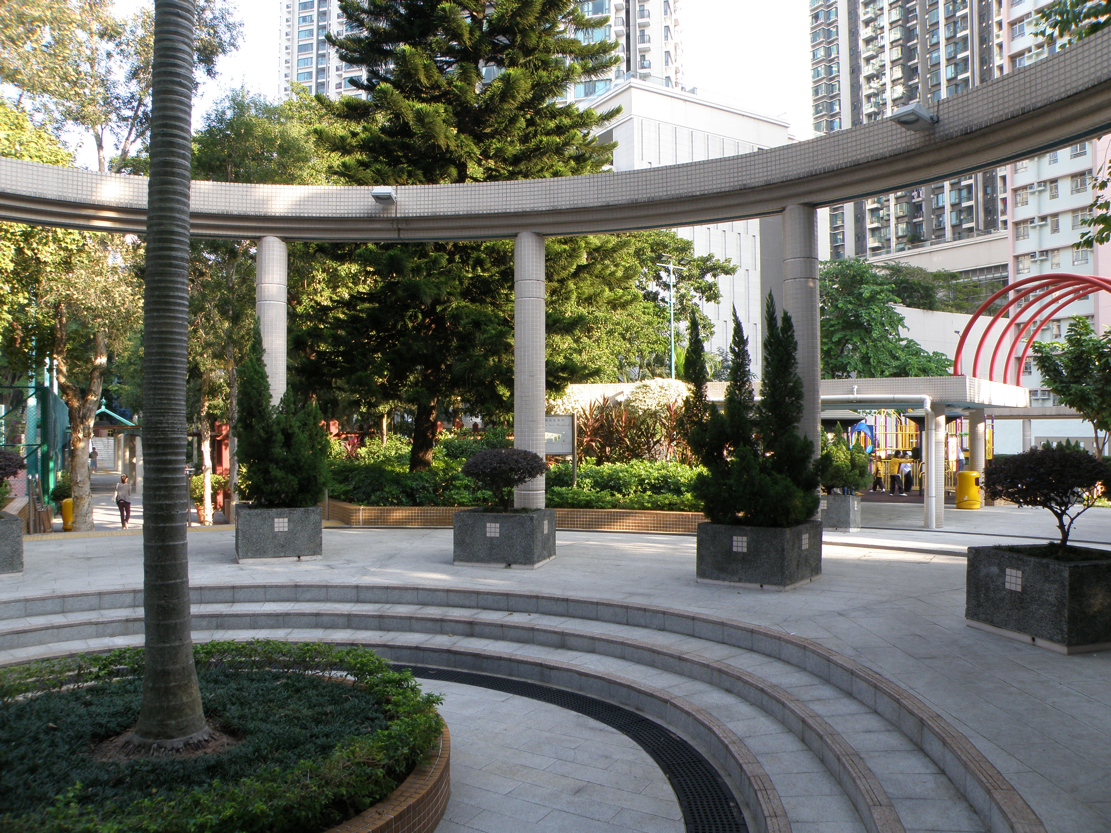 Muk Lun Street Playground in Wong Tai Sin, Hong Kong.